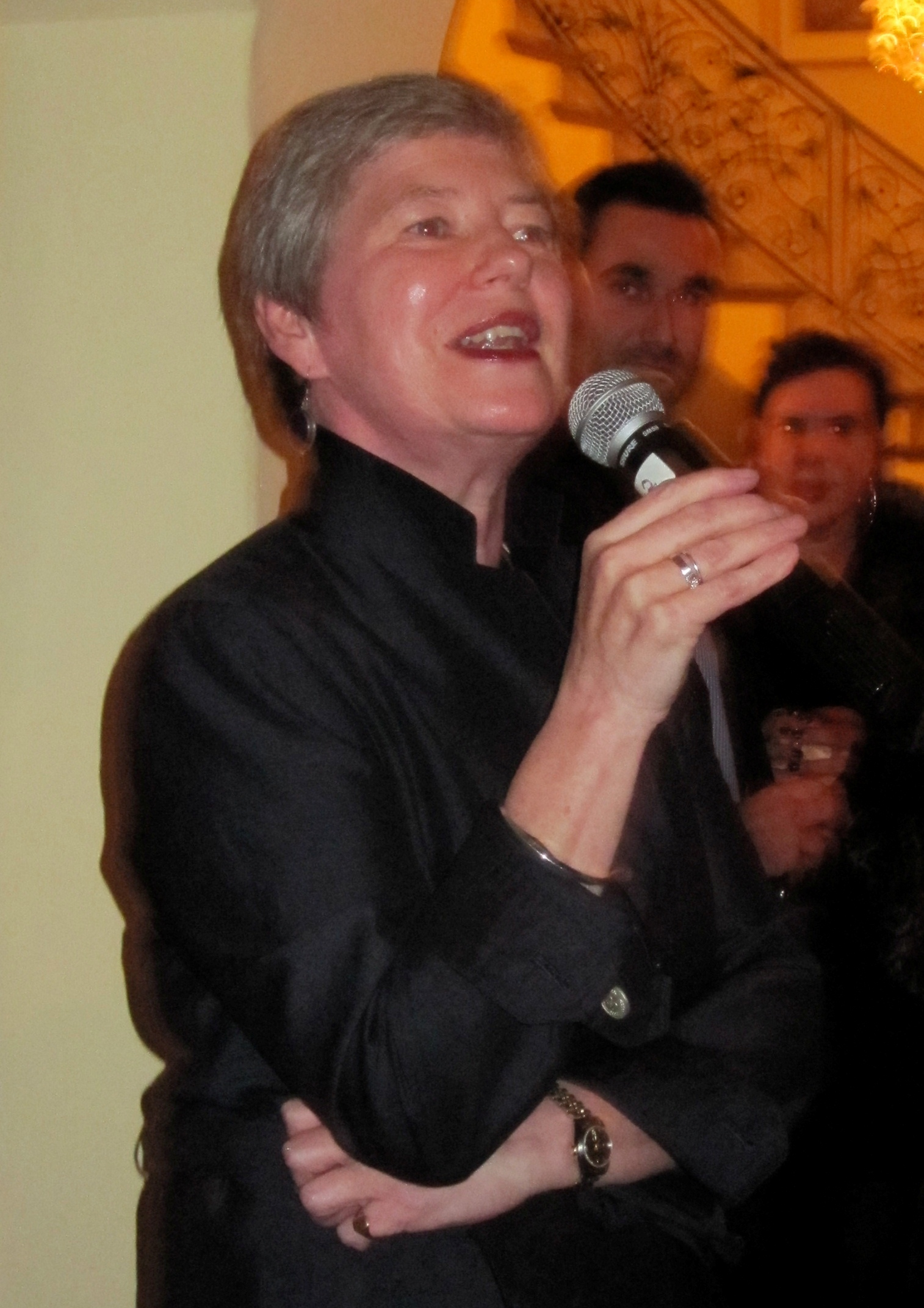 Dame Barbara Hay addresses the gather throng at the Digital Mission reception